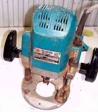 Makita plunge router